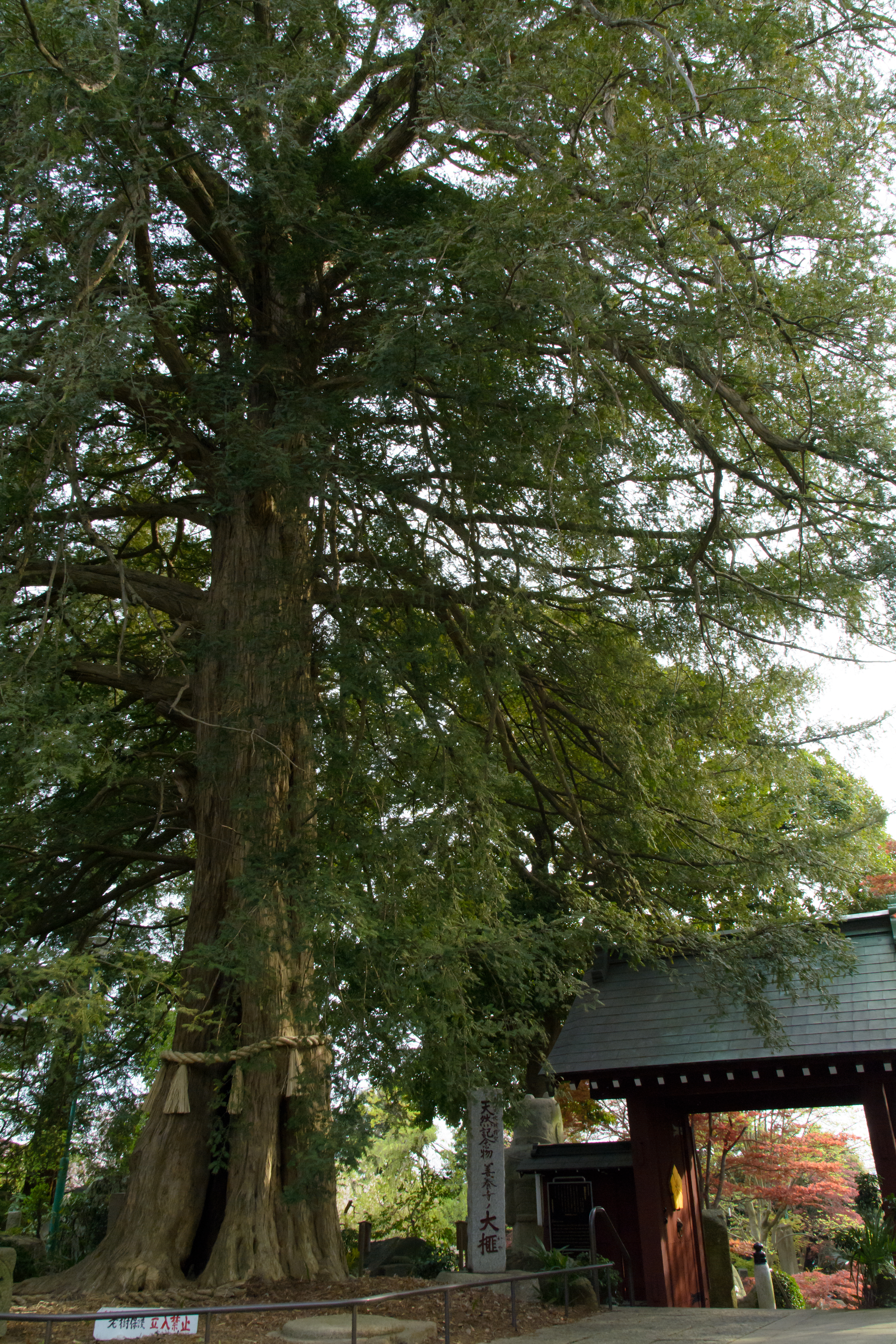 The Japanese nutmeg in Zenyōmitsu-ji